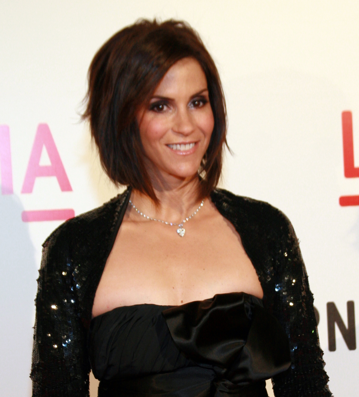 Jami Gertz arrives at the Opening of the Broad Contemporary Art Museum.